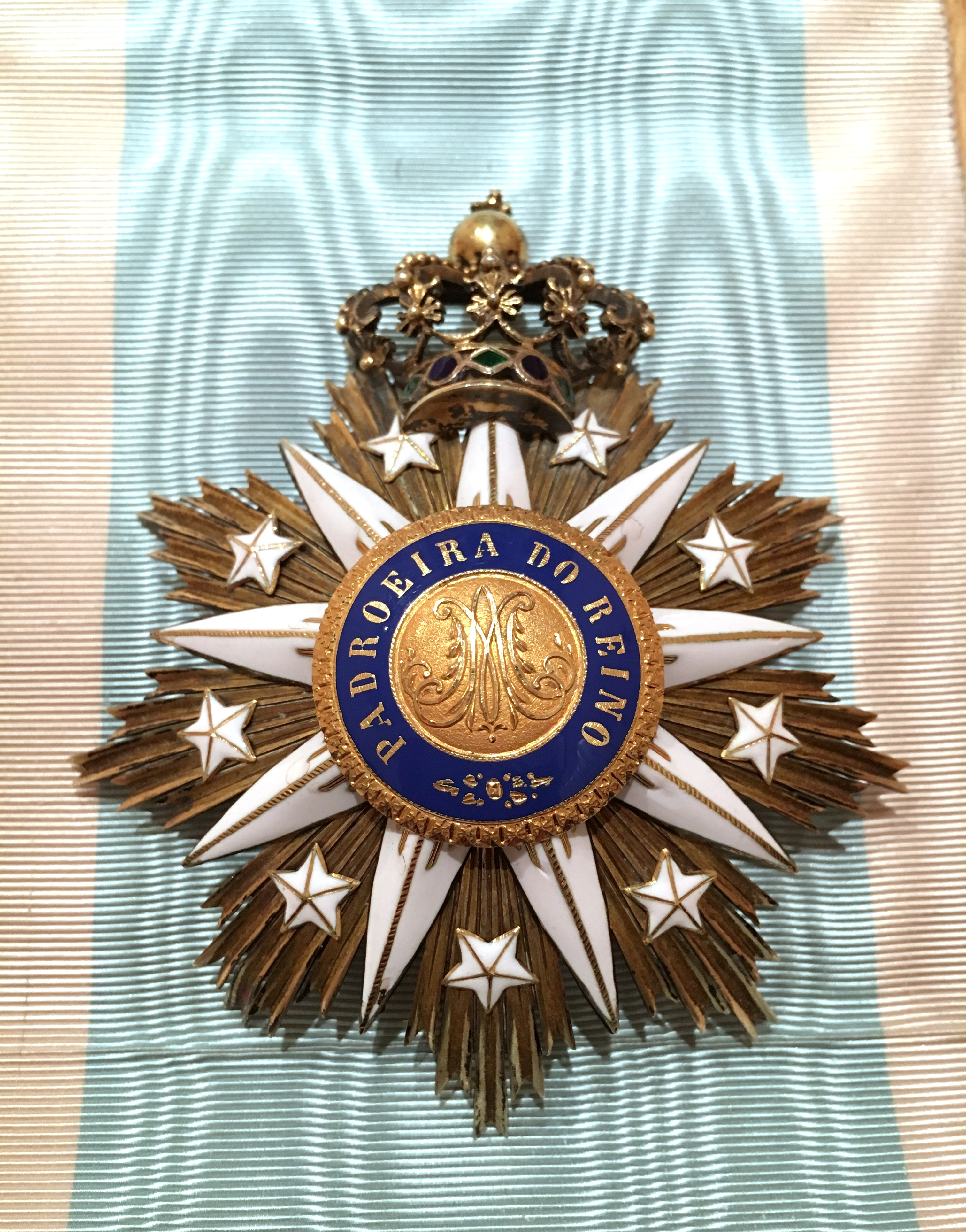 Grand Cross star and sash of the Order of Our Lady of Vila Viçosa, Kingdom of Portugal. AEA Collection.